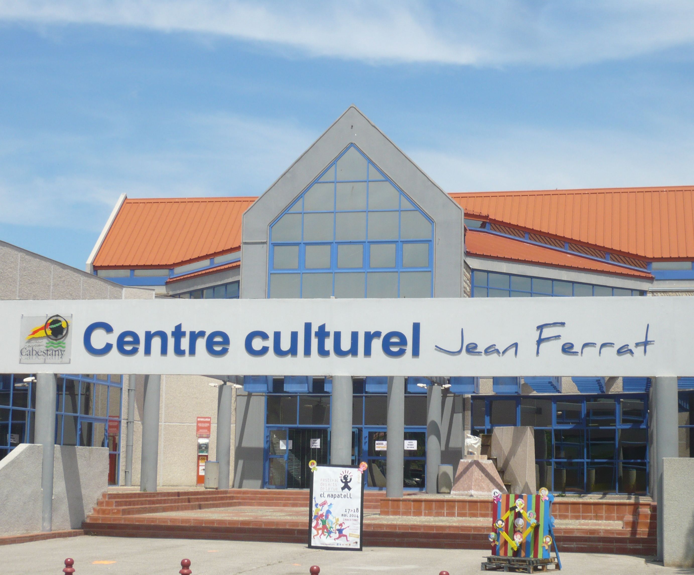 Centre culturel et bibliothèque à Cabestany